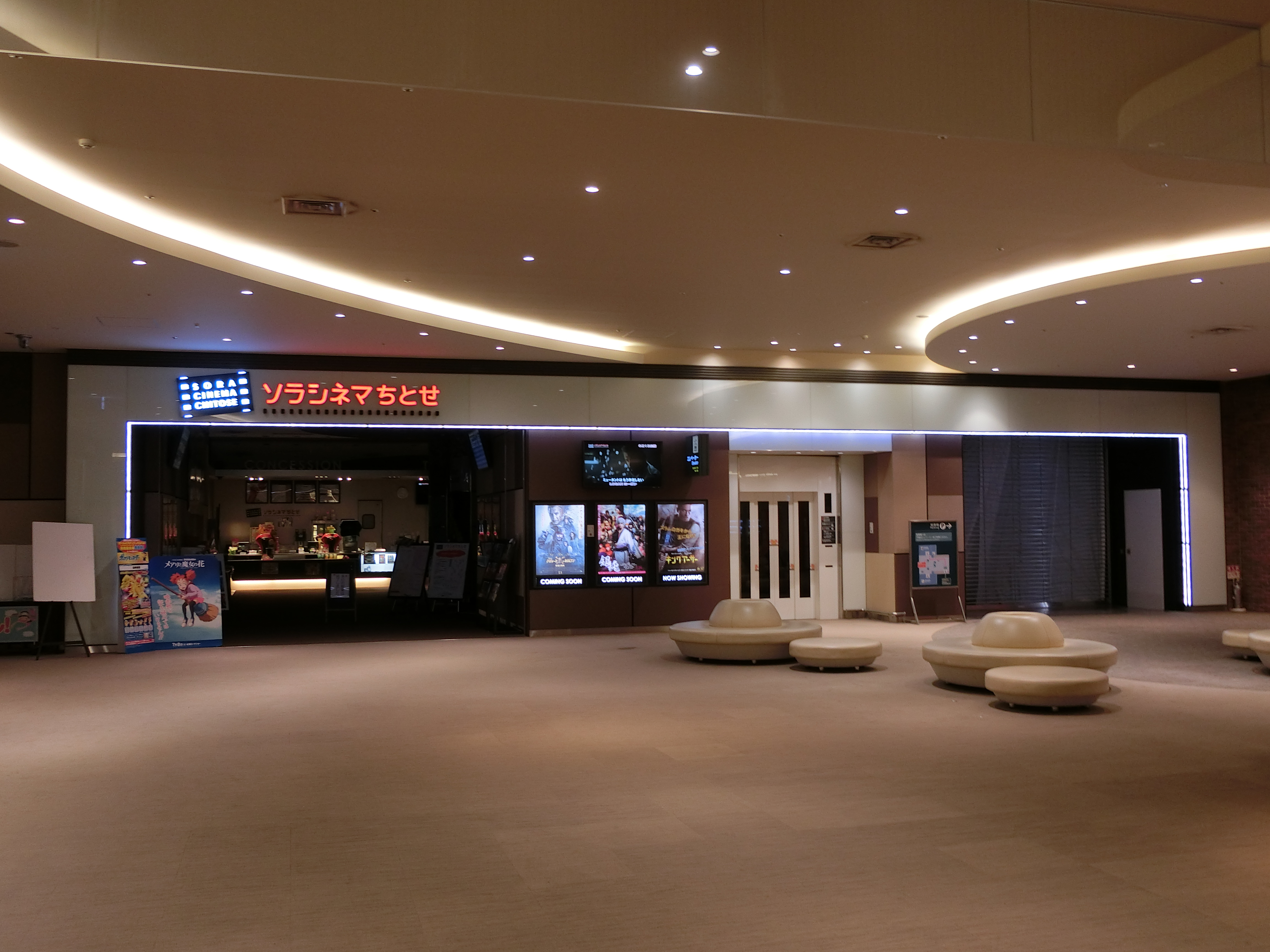 Sorachinema Chitose located in New Chitose Airport, Chitose, Ishikari District, Hokkaido.